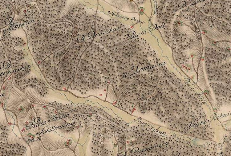 Kebel teritory, Habsburg monarchy 1st military survey 1783.